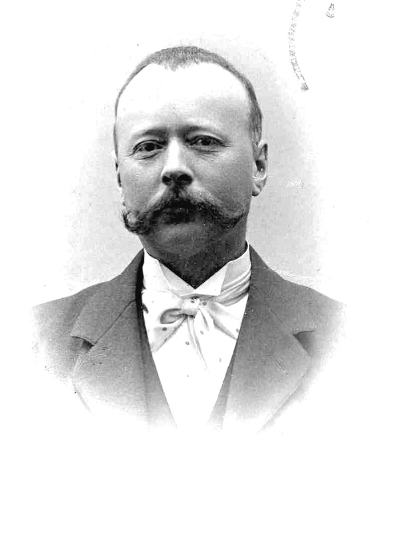 Frederik Emil van der Aa Kühle (1852-1902), Danish industrialist and politician